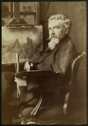 Elchanon Verveer